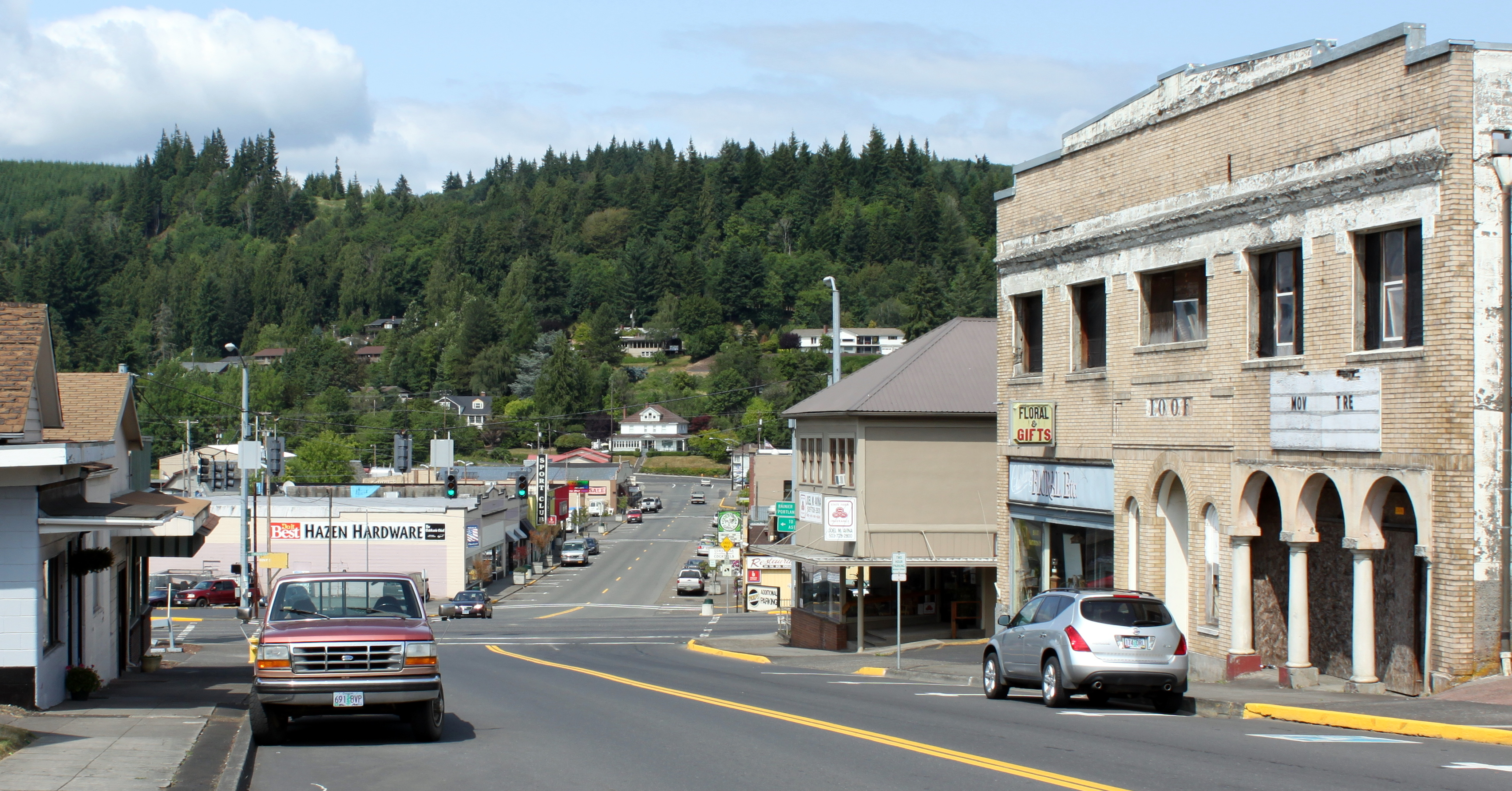 Skyline of Clatskanie, Oregon; the National Register-listed IOOF hall is on the right